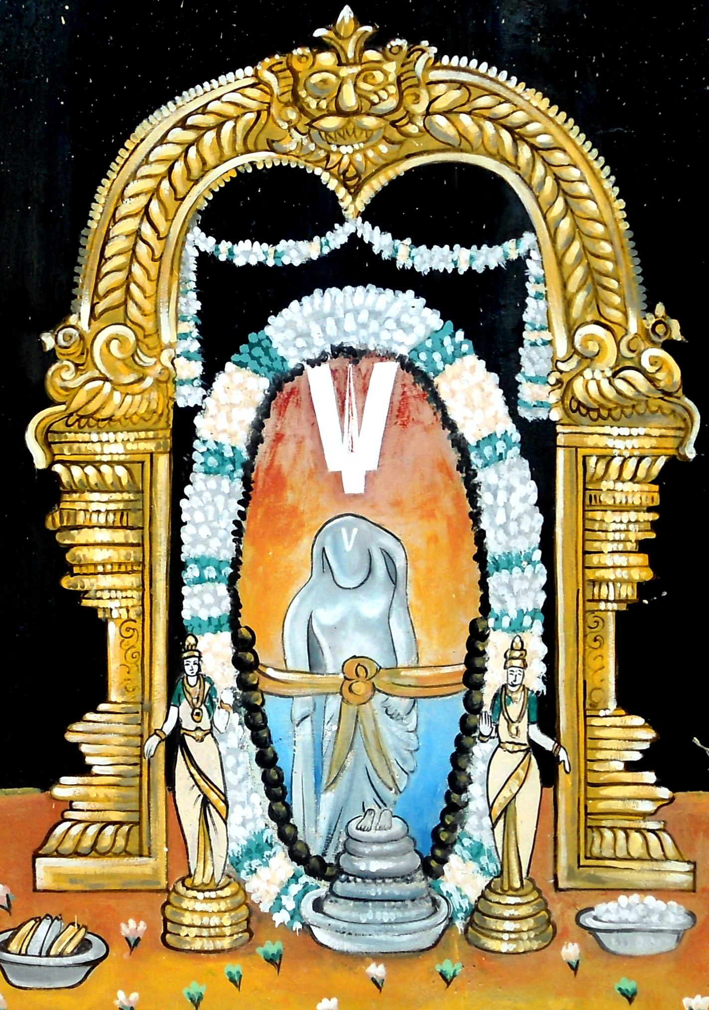 A 21th Century painting of Varaha Narasimha Swamy at Yogananda Narasimha Swamy Temple in Bhadrachalam, Khammam district